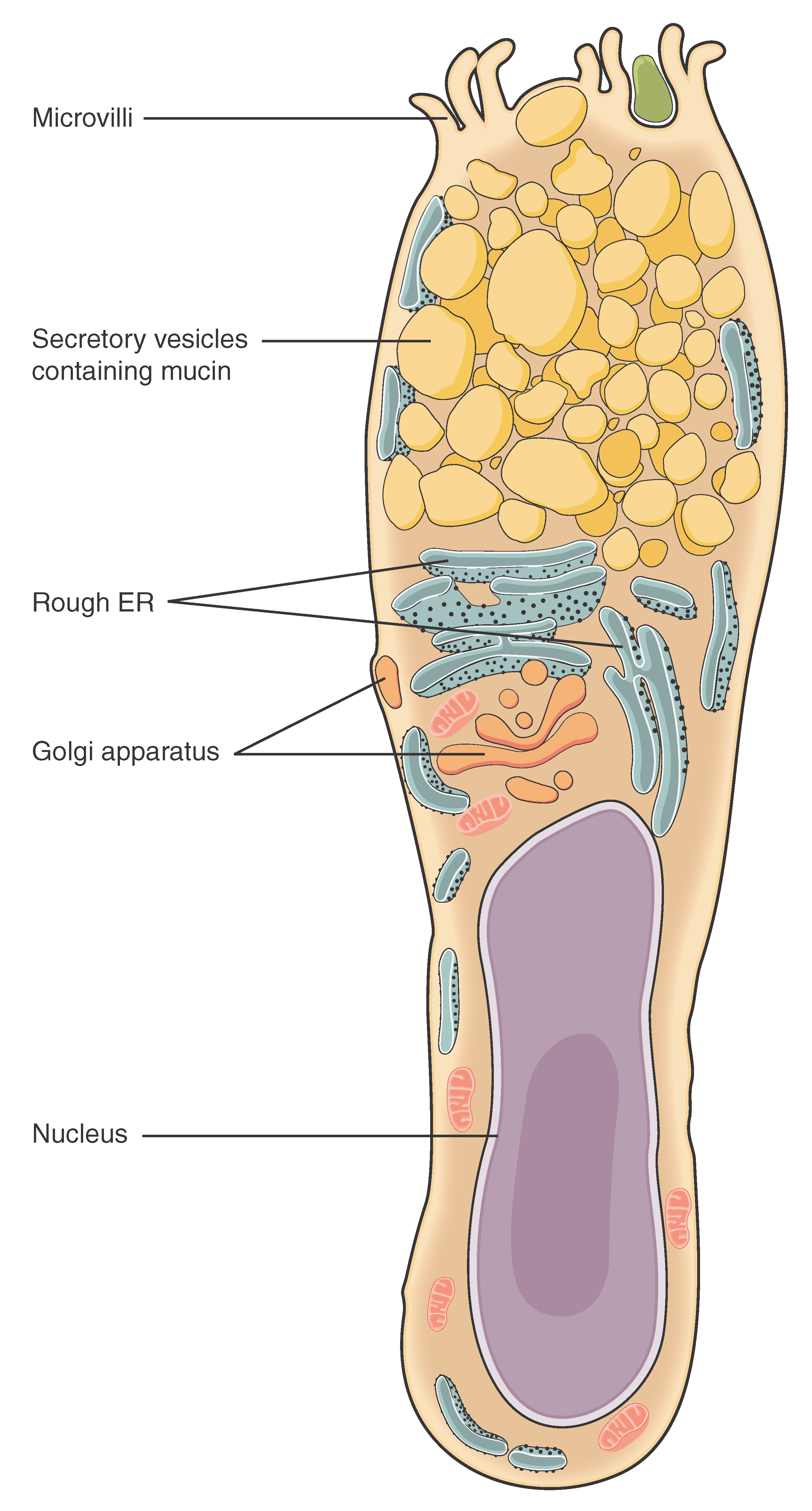 Illustration from Anatomy & Physiology, Connexions Web site. Jun 19, 2013.